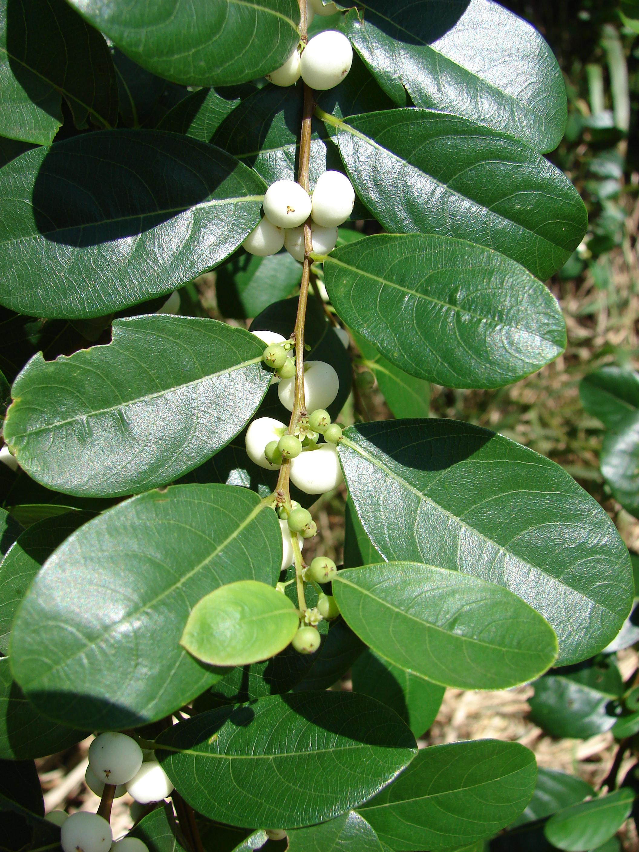 Flueggea virosa (leaves and fruit). Location: Maui, Haiku